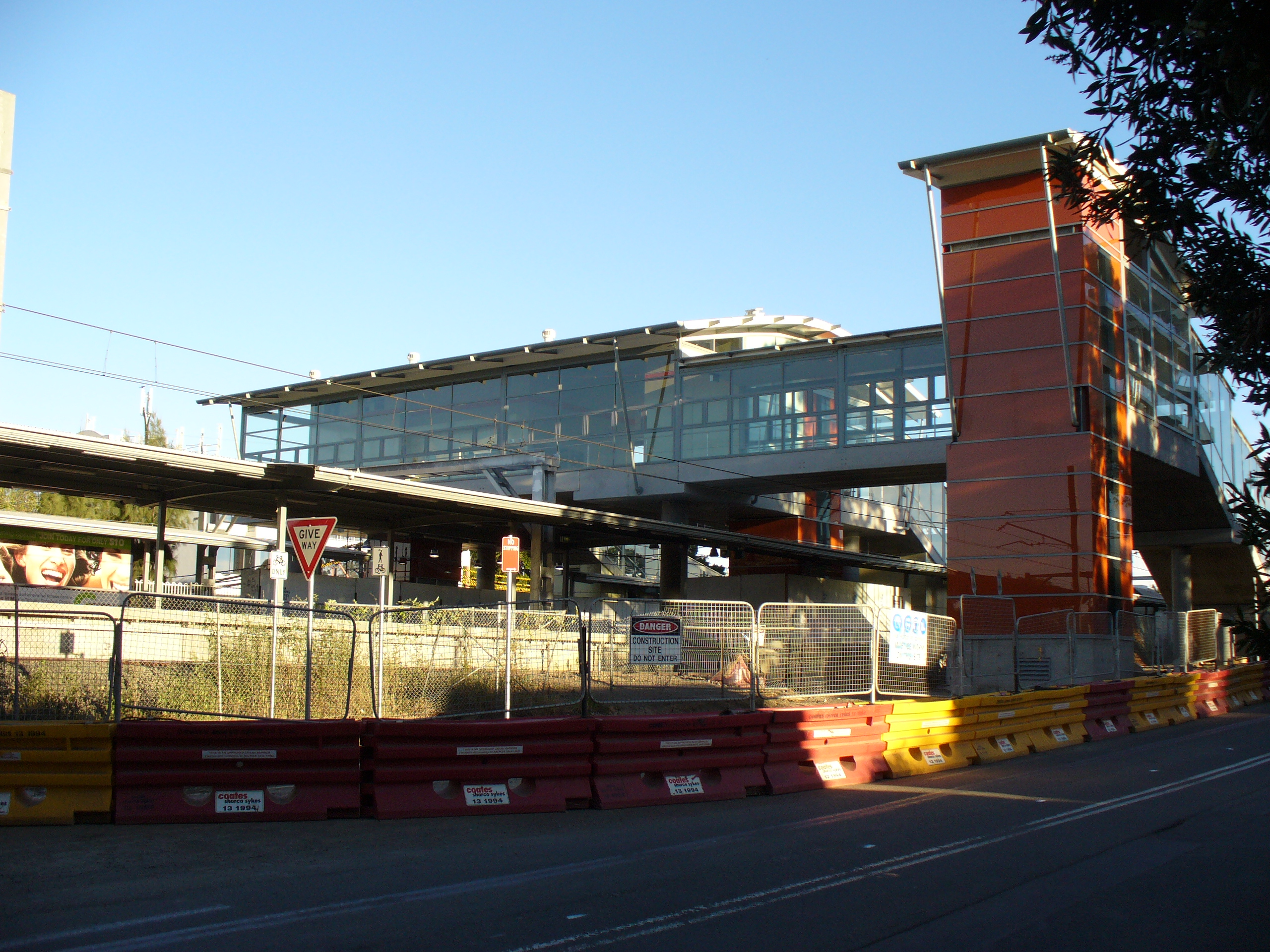 New concourse of Rhodes station, Sydney - Uploaded by JROBBO on 7/4/06.